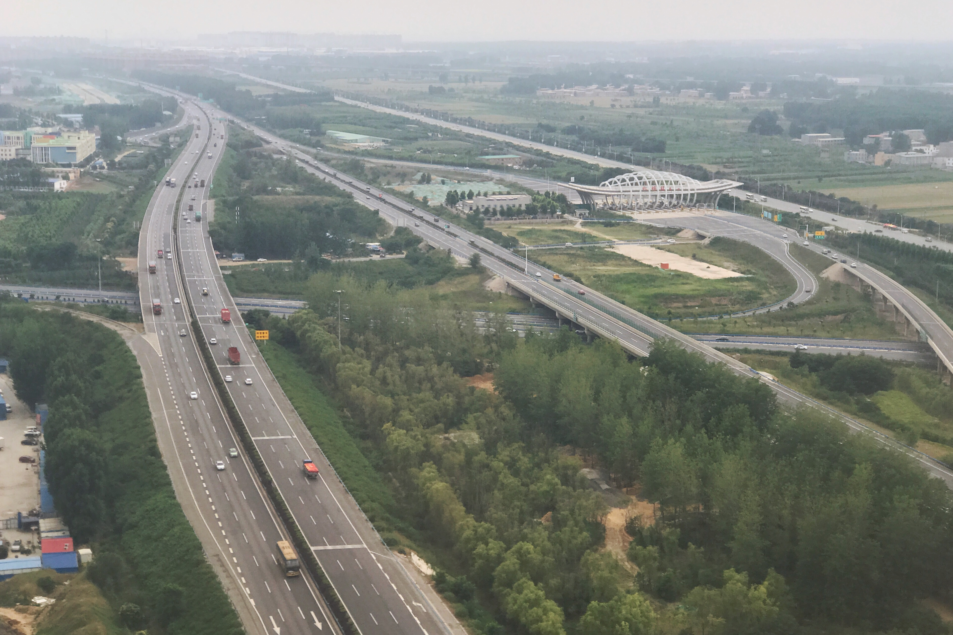 G4 and S1 Expressway near Zhengzhou Xinzheng International Airport 中文（中国大陆）: 郑州新郑国际机场附近的G4和豫S1高速公路